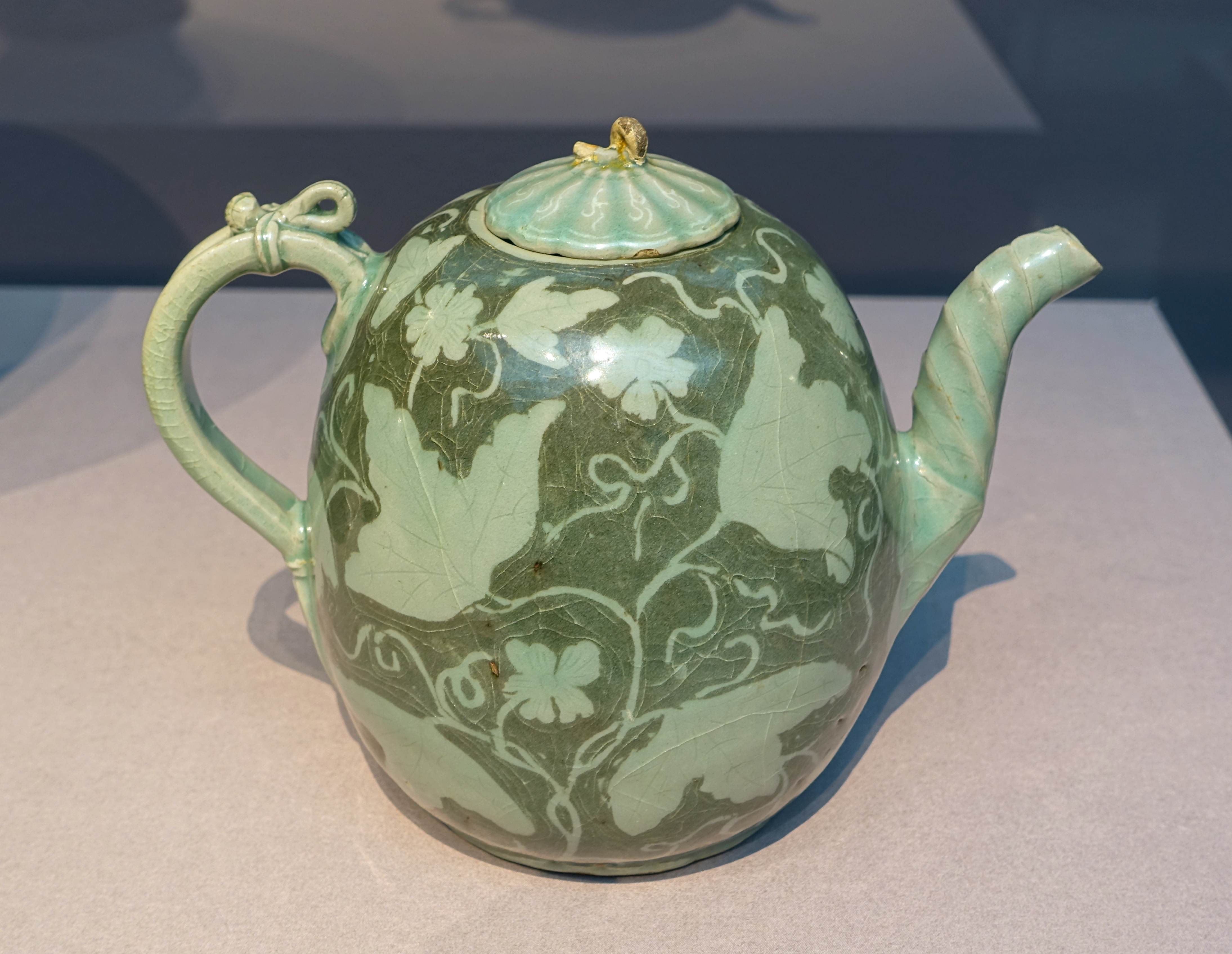 Exhibit in the Freer Gallery of Art, Washington, D.C., USA.